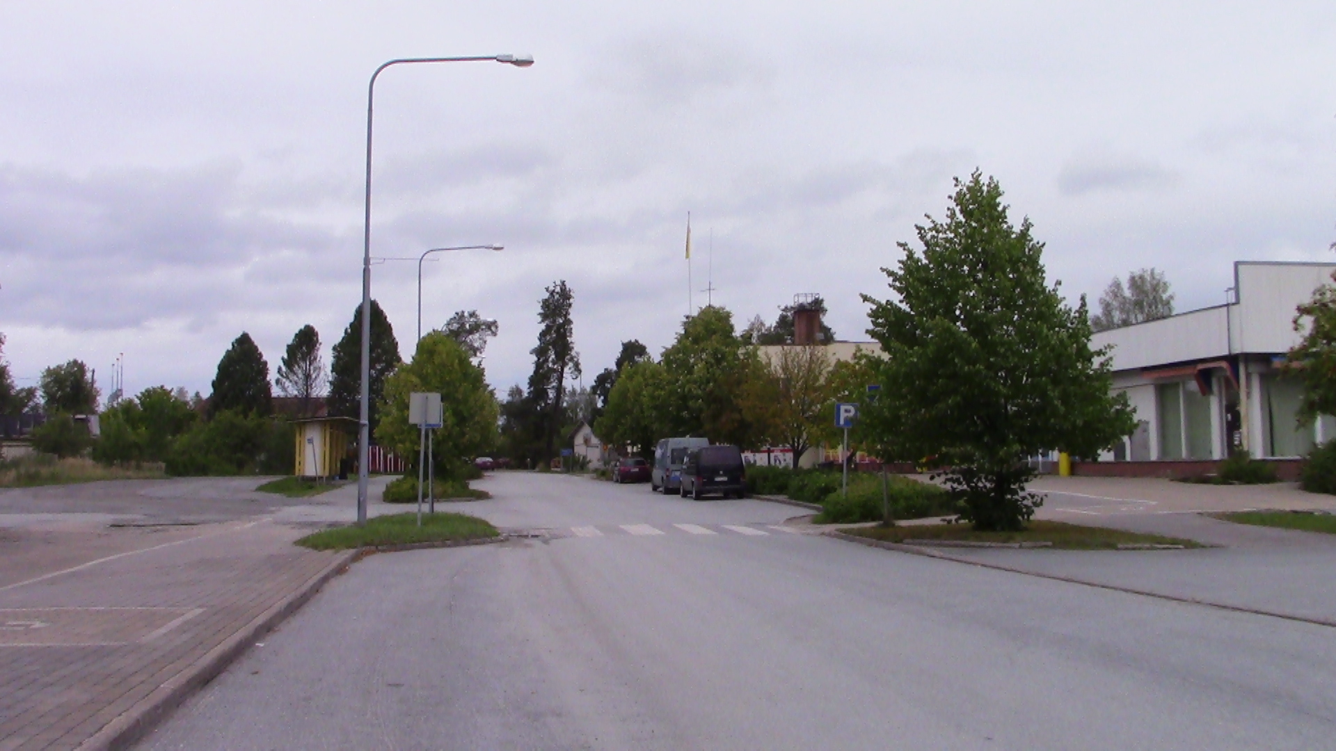 Finnish connecting road 6414 at Hankasalmi station village in Hankasalmi, Finland. In the picture you can see the road almost as a whole from beginning to an end.